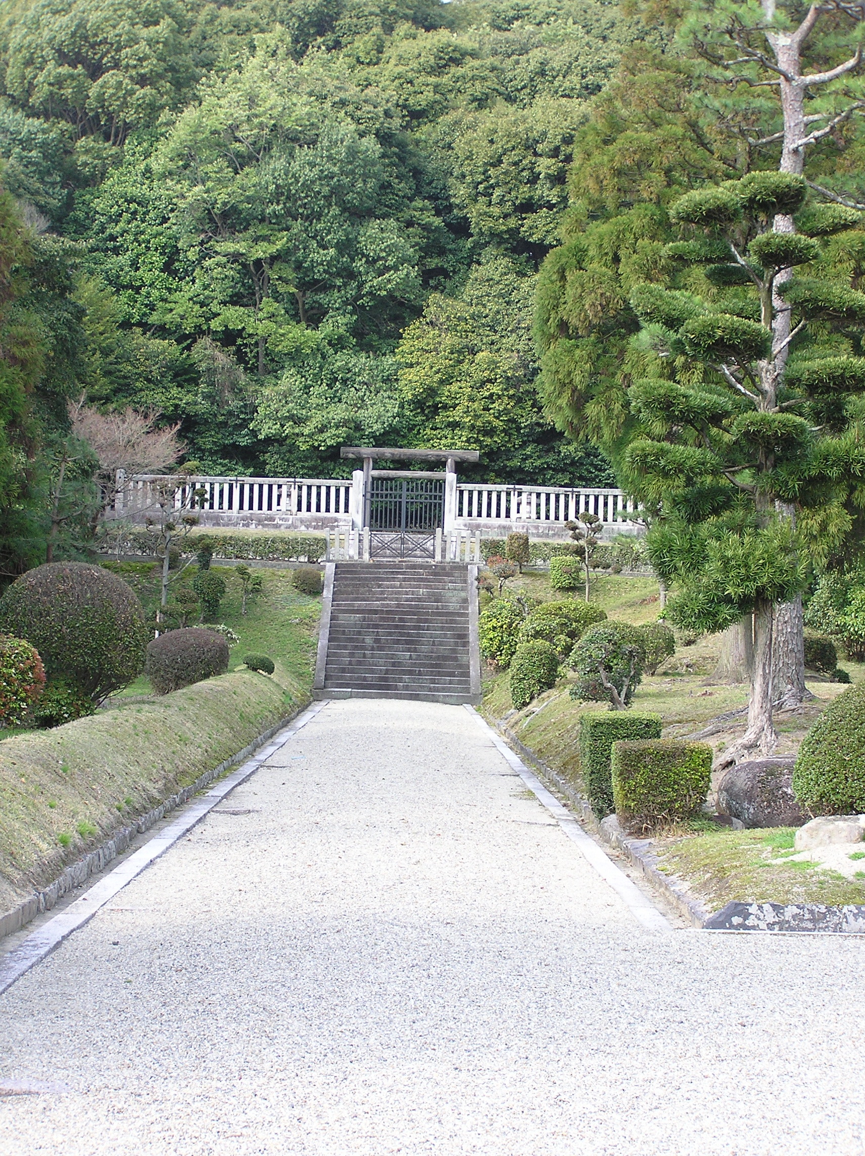 Burial mound of Emperor Shōmu, Nara, Japan